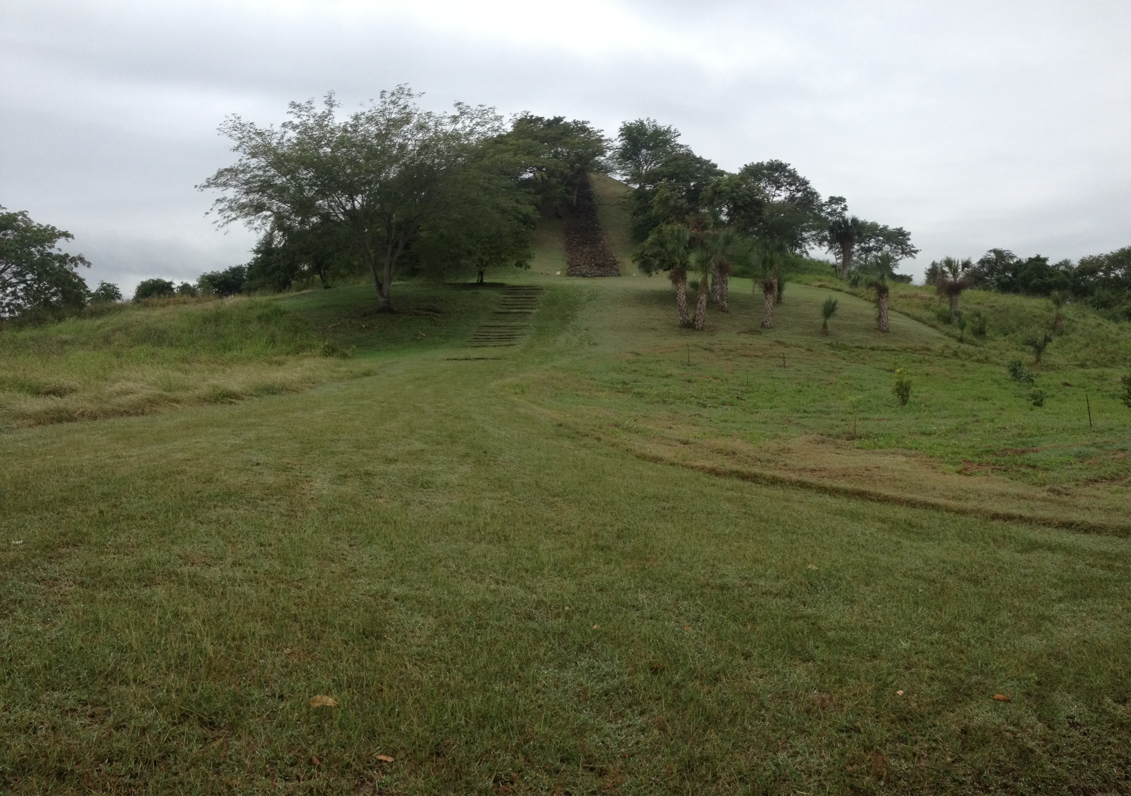 EL Tizate